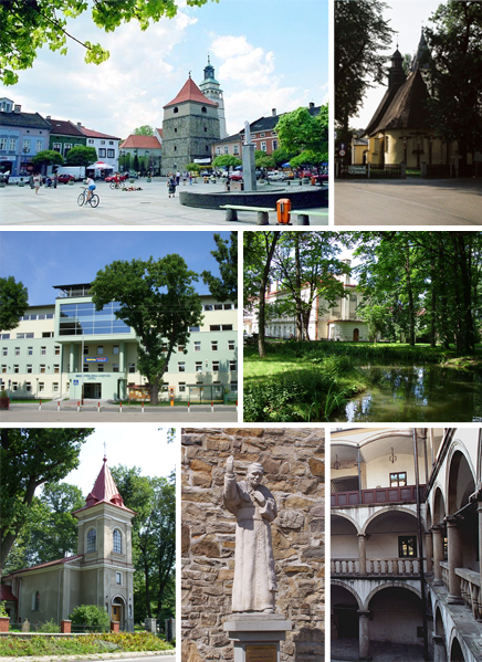 Collage of views of Żywiec